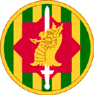 89th Military Police Brigade shoulder sleeve insignia